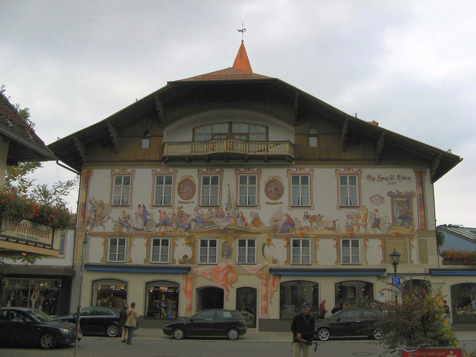 Birthplace of the german poet Ludwig Thoma in Oberammergau, Germany